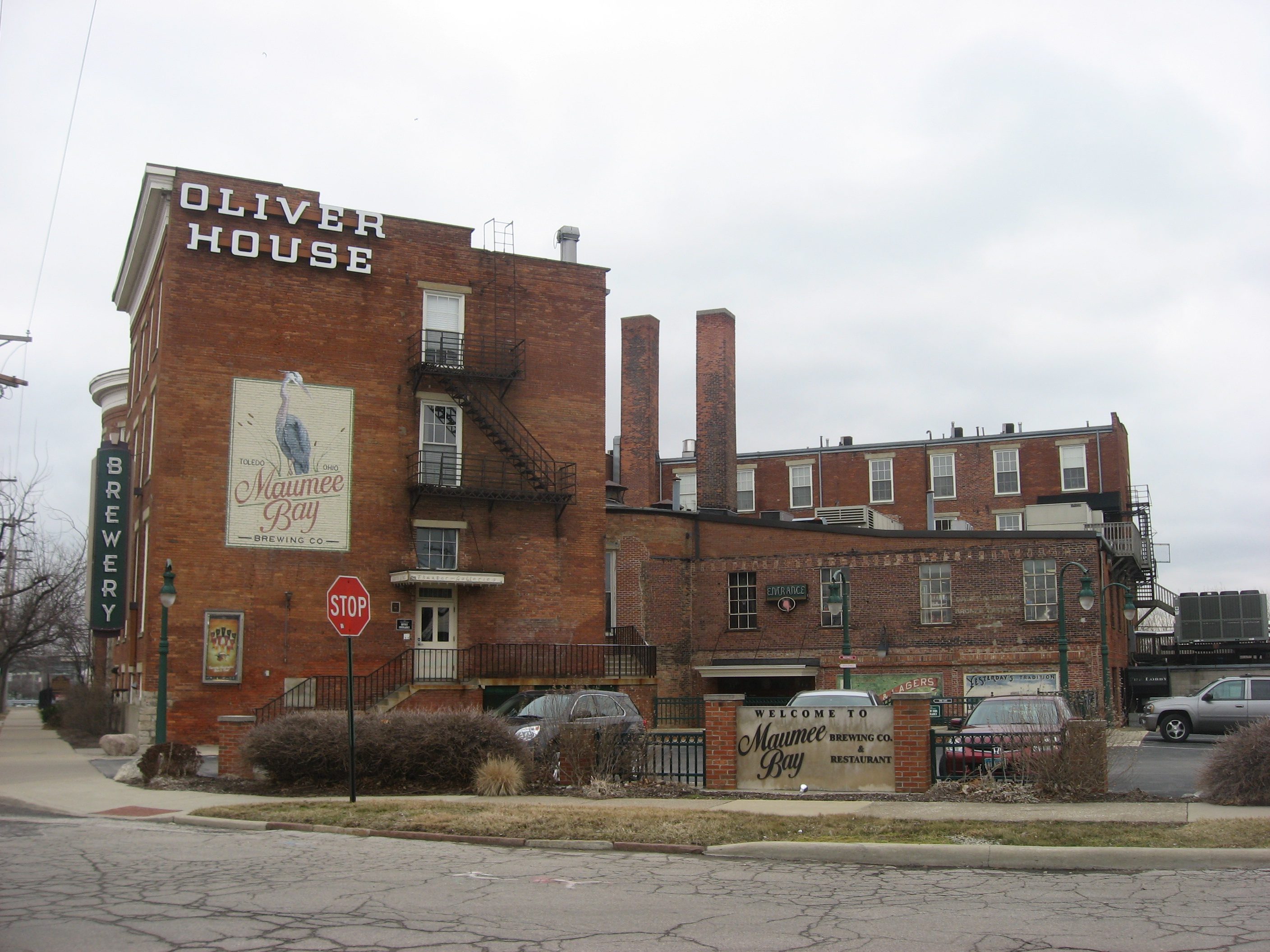 Southern side of the Successful Sales complex (currently the Oliver House), a brewery and former hotel located at 27 Broadway in Toledo, Ohio, United States. Built in 1859, it is listed on the National Register of Historic Places.